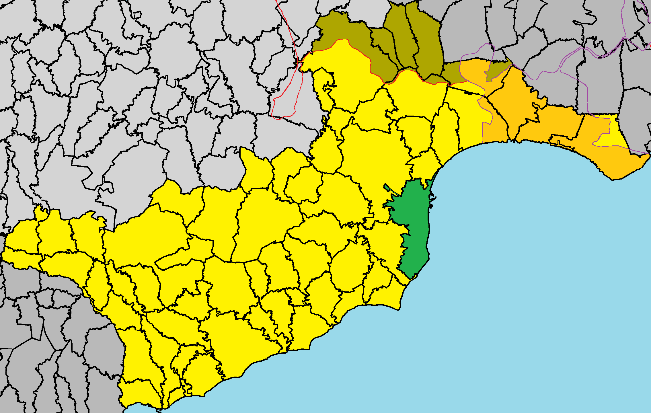 Larnaca Municipality in Larnaca District.